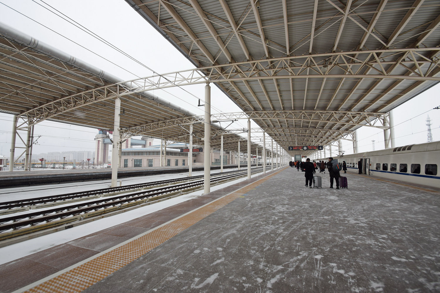 Platforms of Siping Dong (East) Railway Station, view towards Gongzhuling Nan (South) Railway Station.